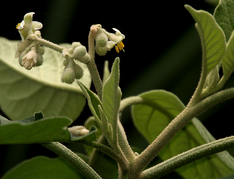 Solanum erianthum- Big Eggplant, China Flowerleaf, Mullein Nightshade, Potato-Tree, Potatotree, Tobacco Nightshade, Tobacco-Tree - in Hyderabad, India.